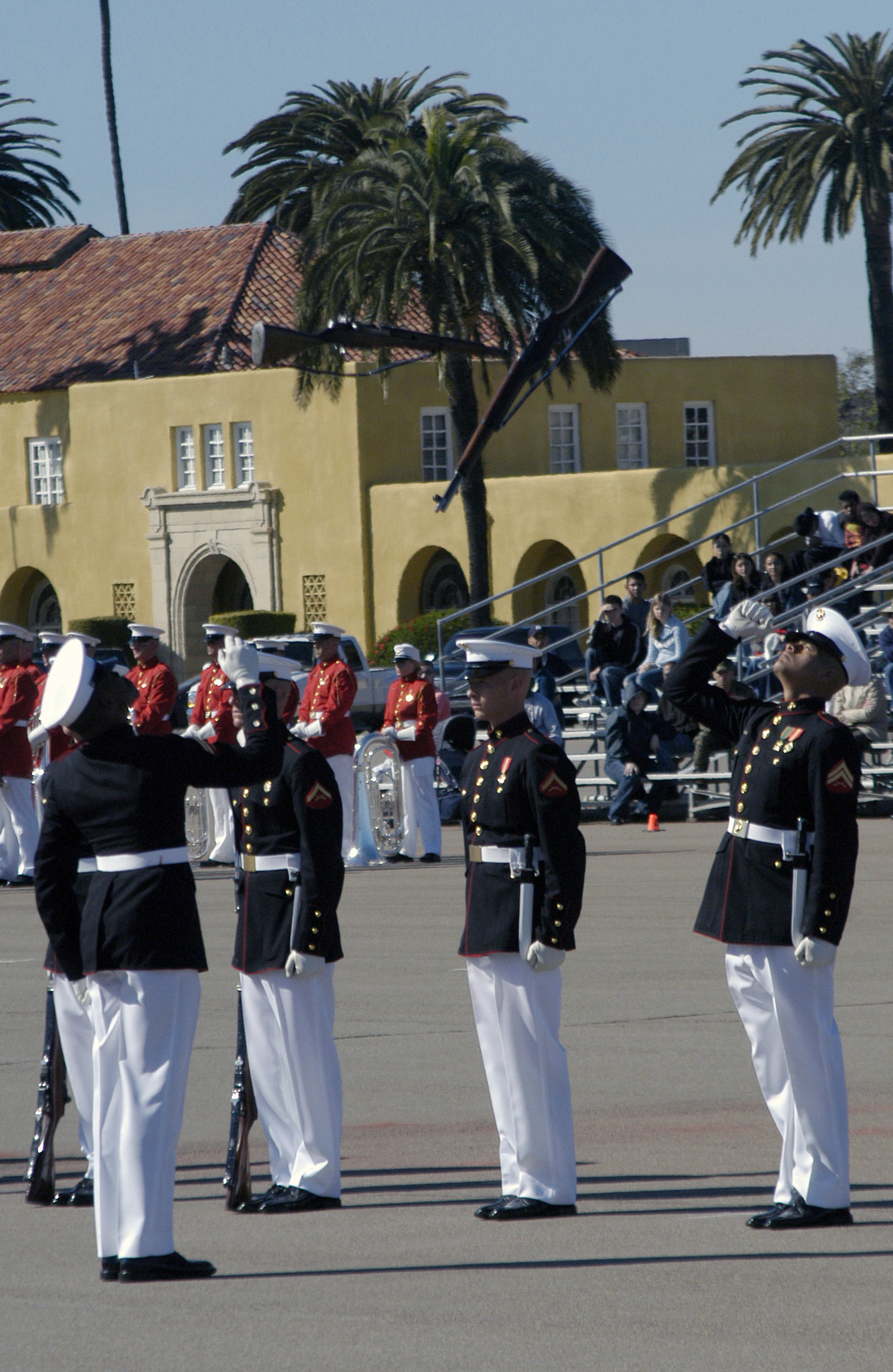 The US Marine Corps (USMC) Silent Drill Platoon performs in front of civilians seated in the Reviewing Stands during the Battle Colors Ceremony held at Marine Corps Recruit Depot (MCRD) San Diego, California (CA). (Released to Public)